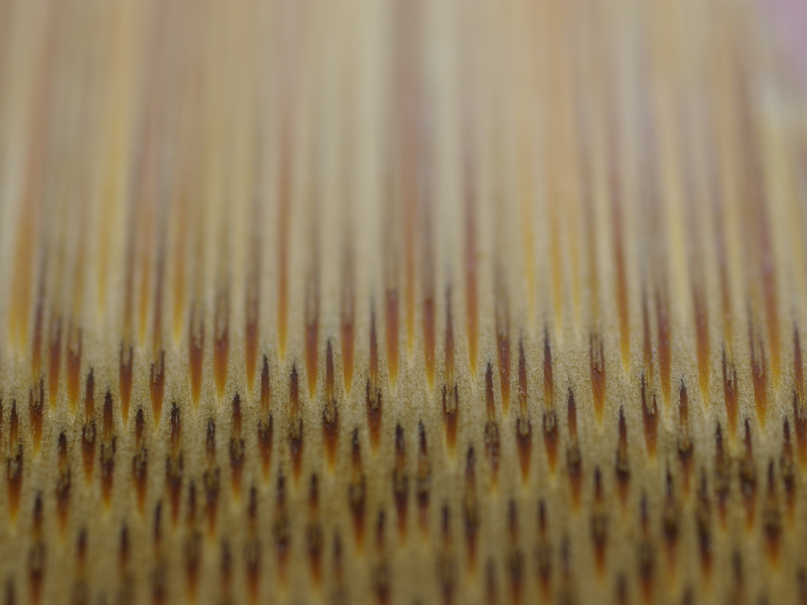 Bamboo fiber